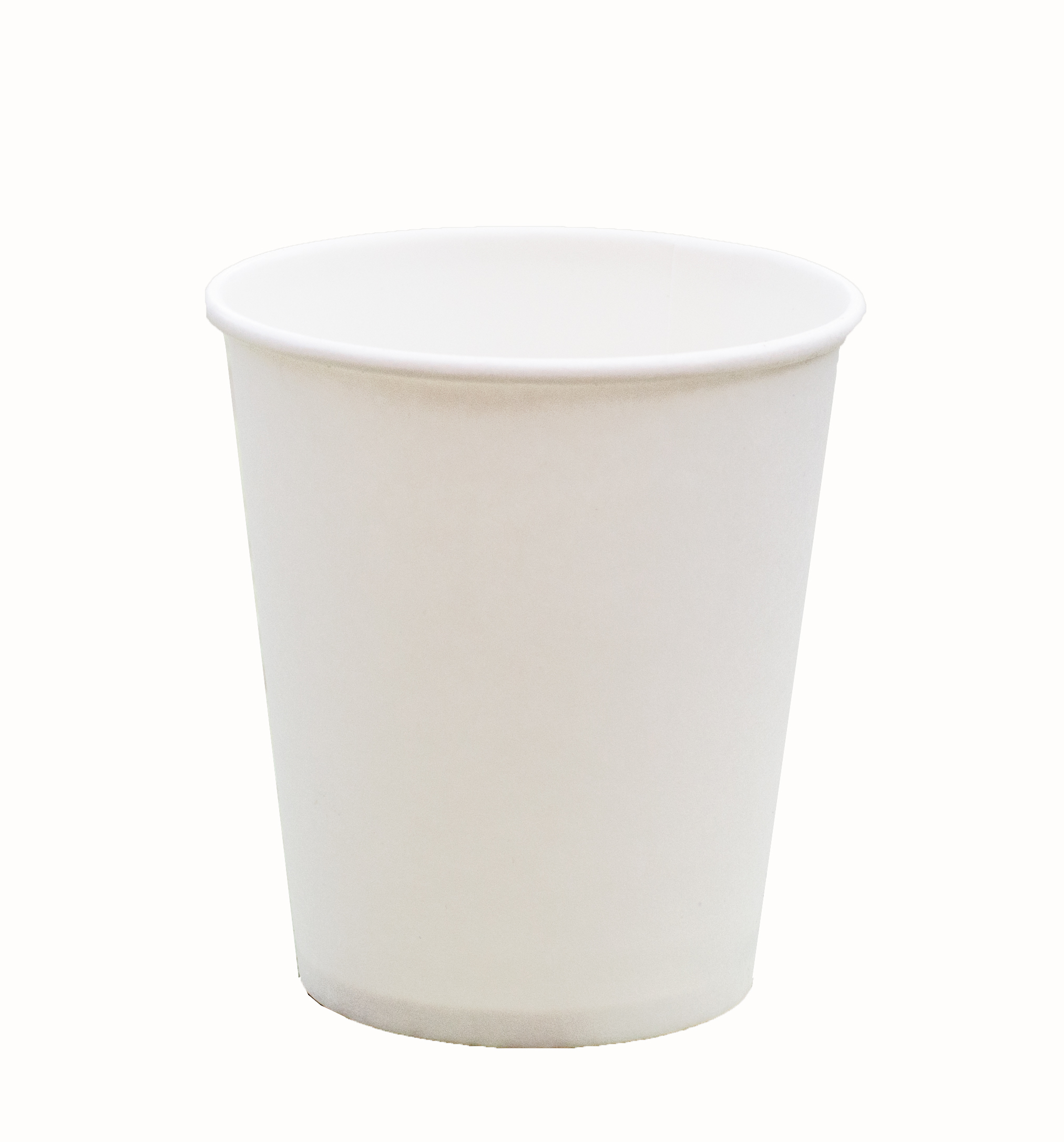 Paper cup